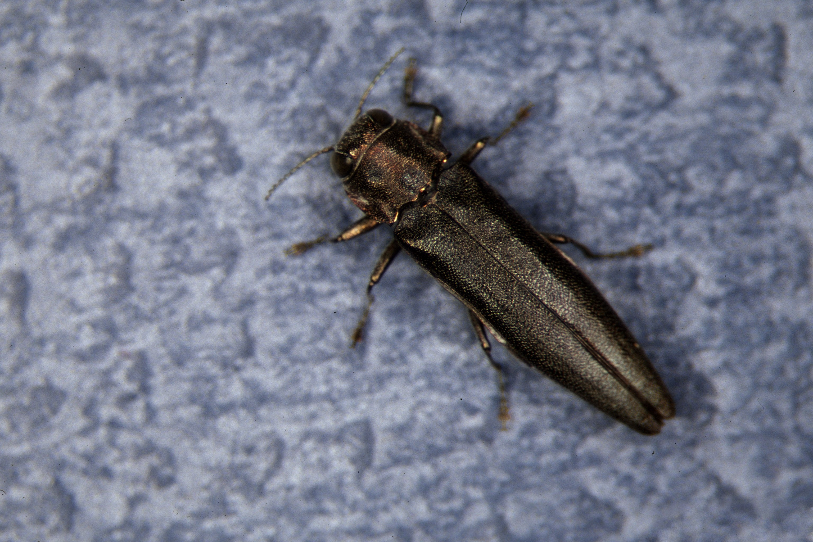 Agrilus anxius Gory Common Name: bronze birch borer Photographer: Whitney Cranshaw, Colorado State University, United States Descriptor: Adult(s) Image taken in: United States